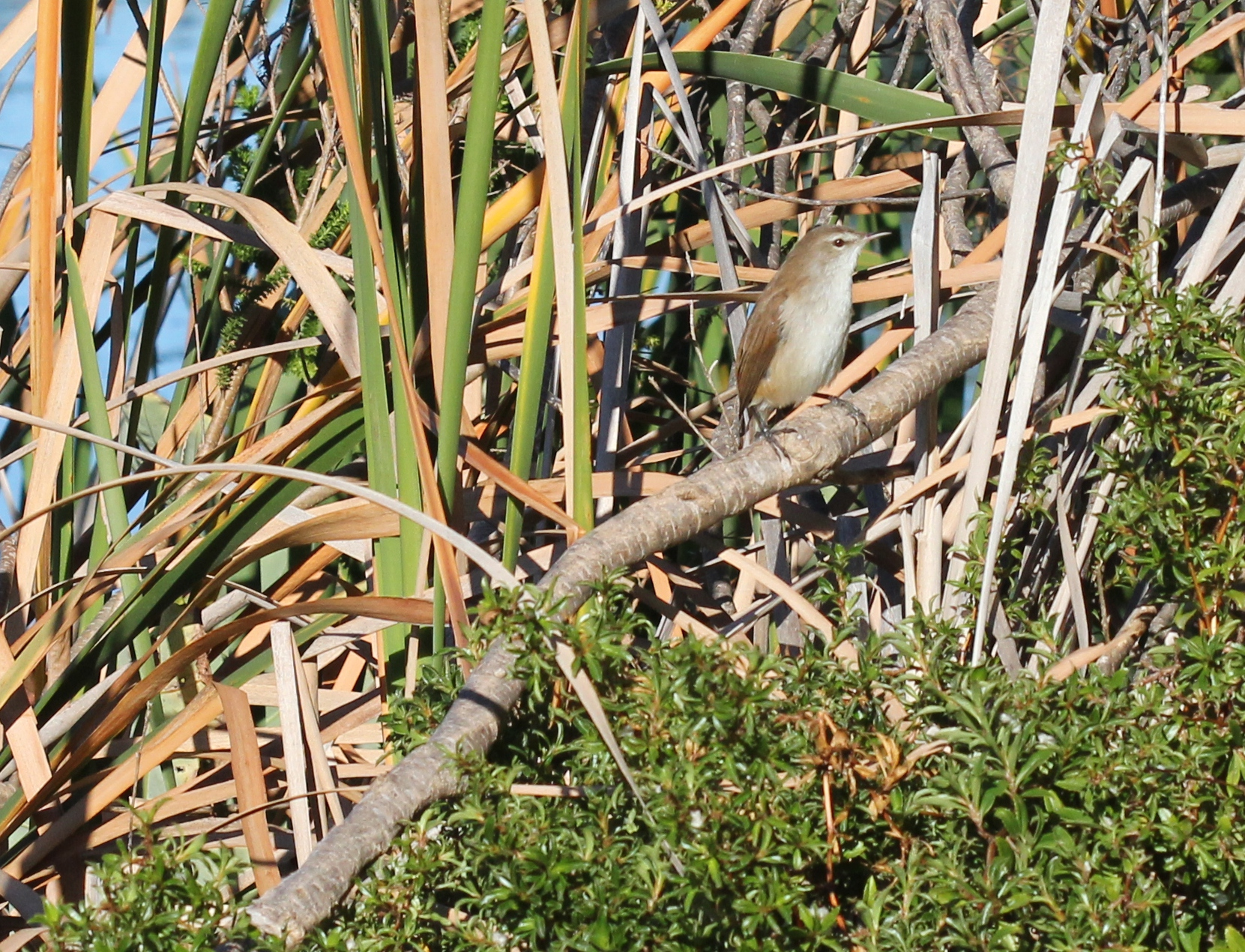 Acrocephalus gracillirostris Cape Reed Warbler or Lesser Swamp Warbler in profile